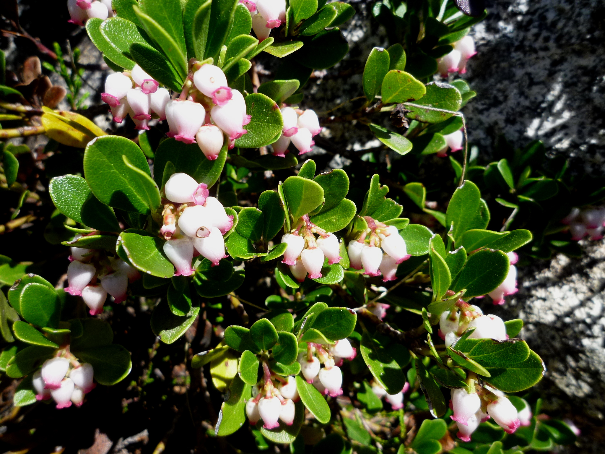 Arctostaphylos uva-ursi. In Cabdella (Pallars Jussà - Catalunya. To 2.310 m altitude